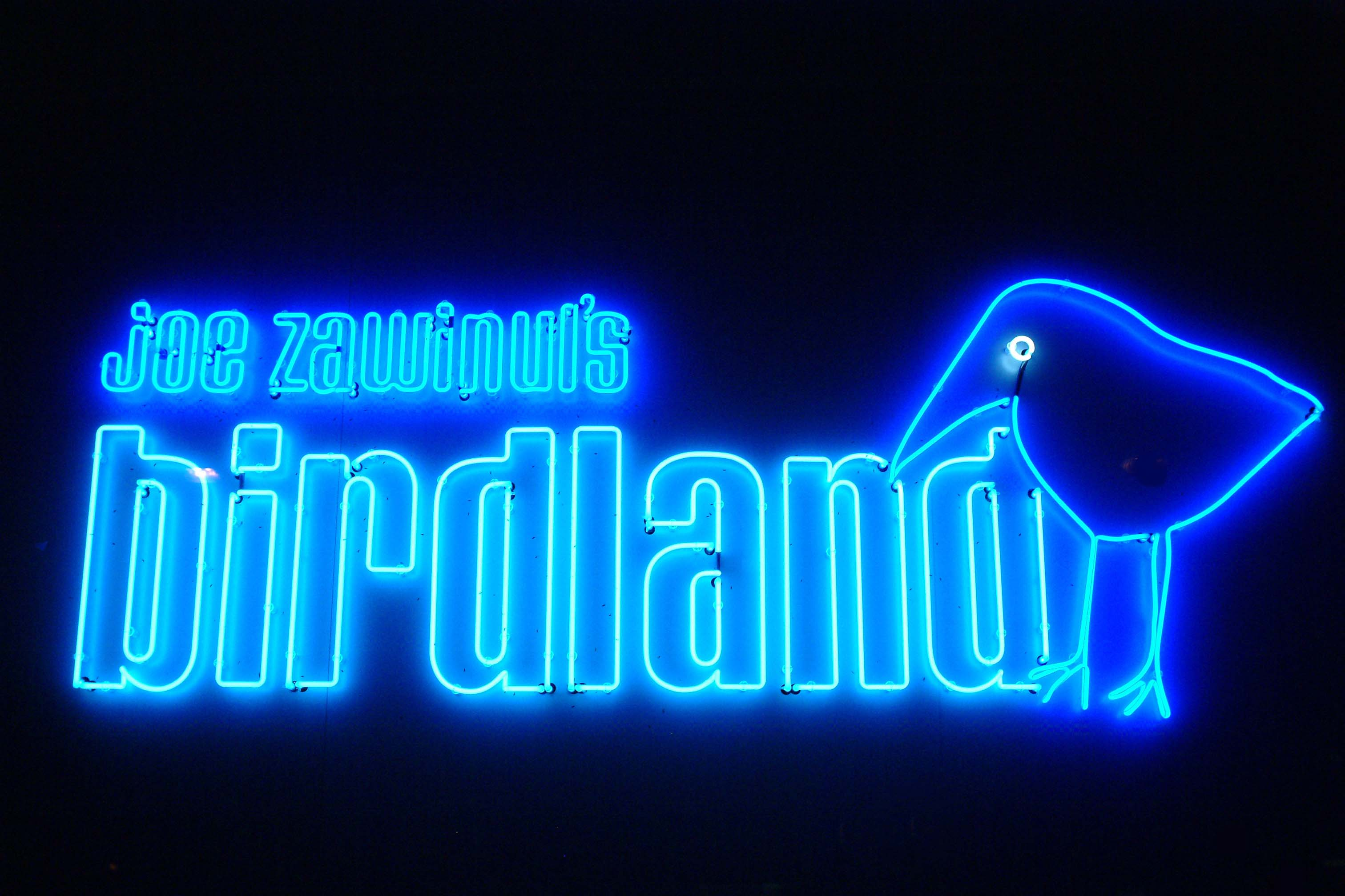 Josef Erich “Joe” Zawinul (7 July 1932 – 11 September 2007) was an Austrian jazz pianist, keyboardist, composer, and bandleader.